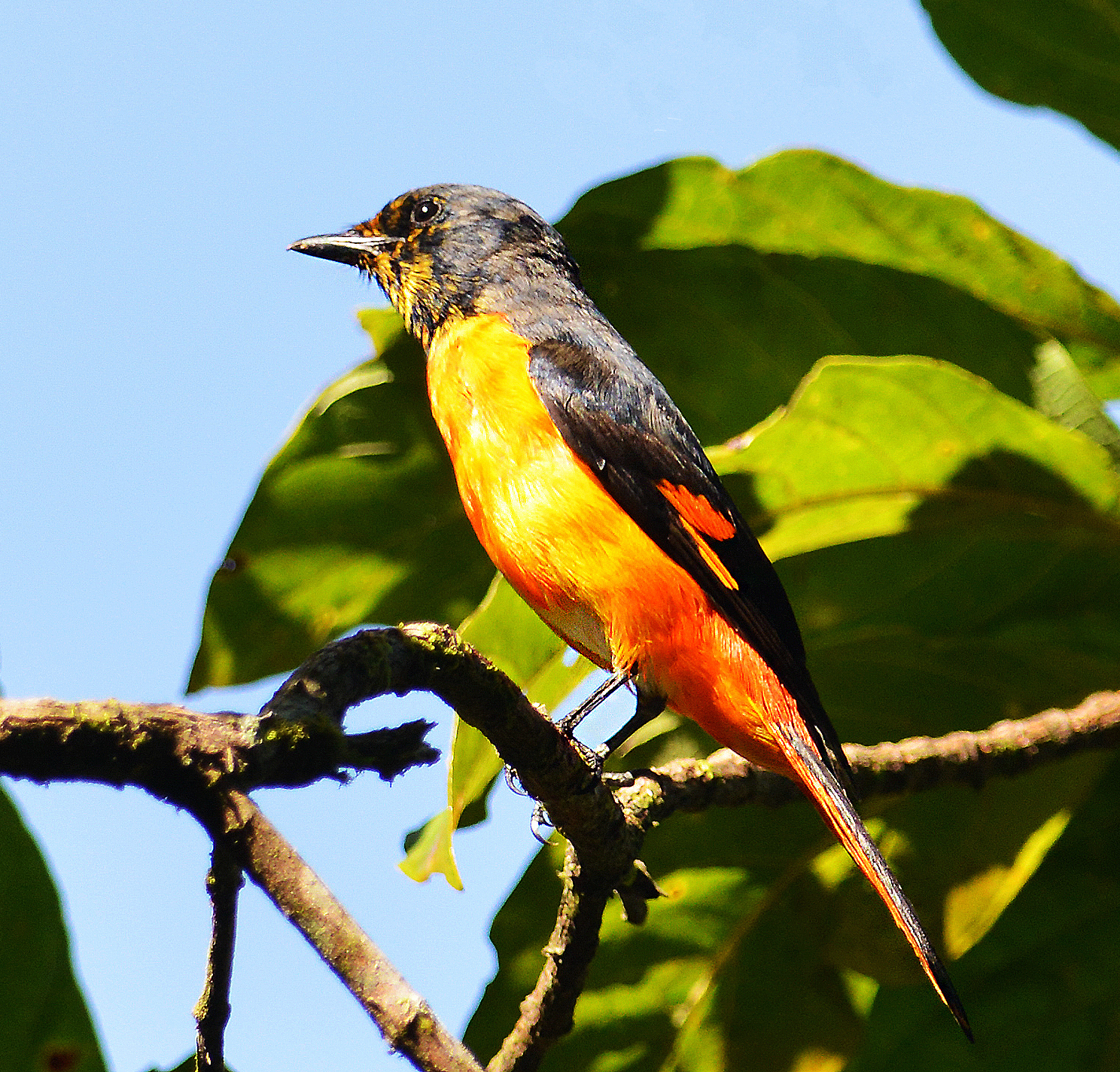 IN PUERTO PRINCESA CITY, PALAWAN, PHILIPPINES